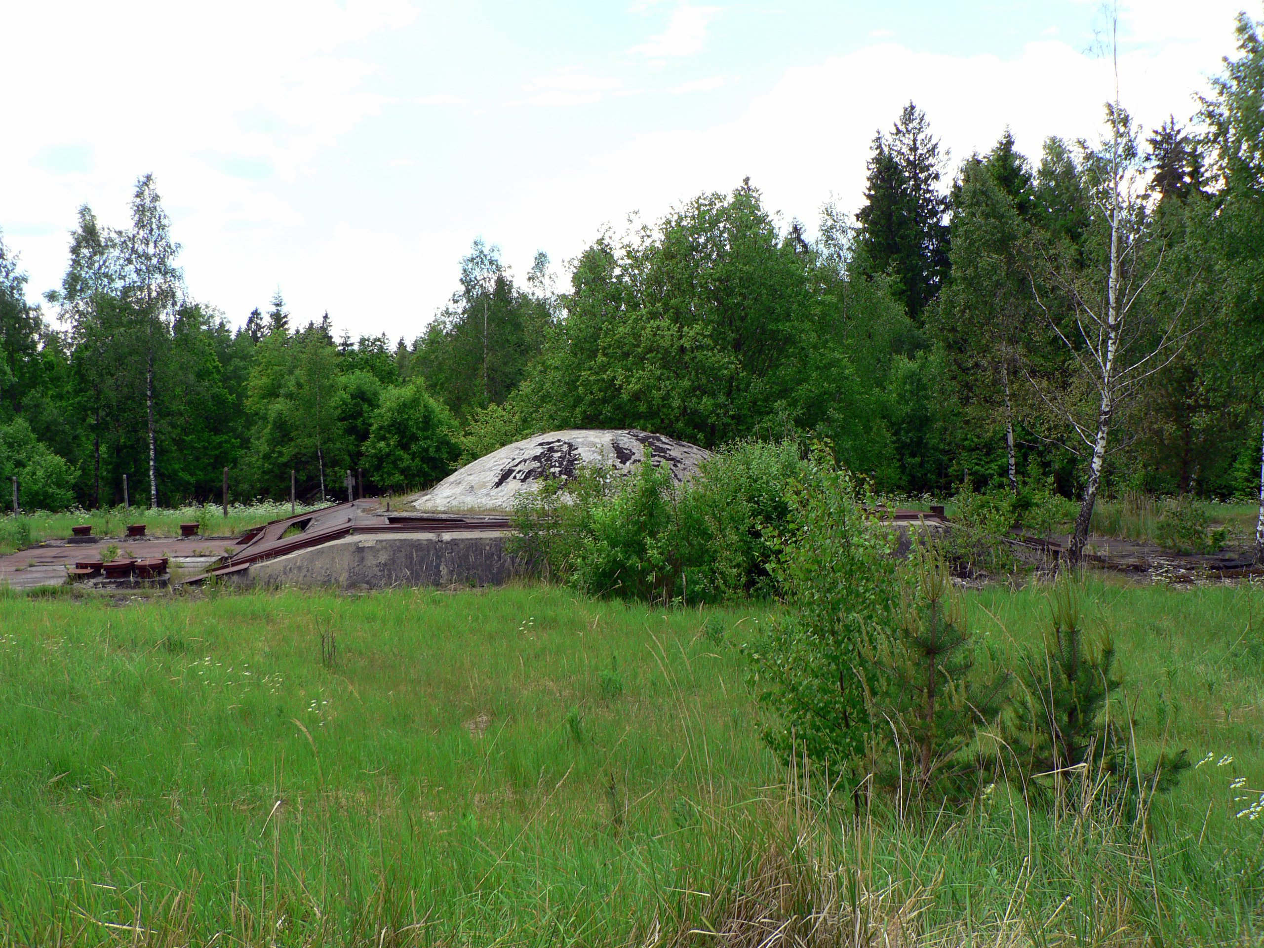 The cupola of an underground R-12U nuclear missile silo in Plokštinė forest base, Lithuania. The cover could slide away on the rails or just blow off before a missile launch. Author: Wojsyl, 2006